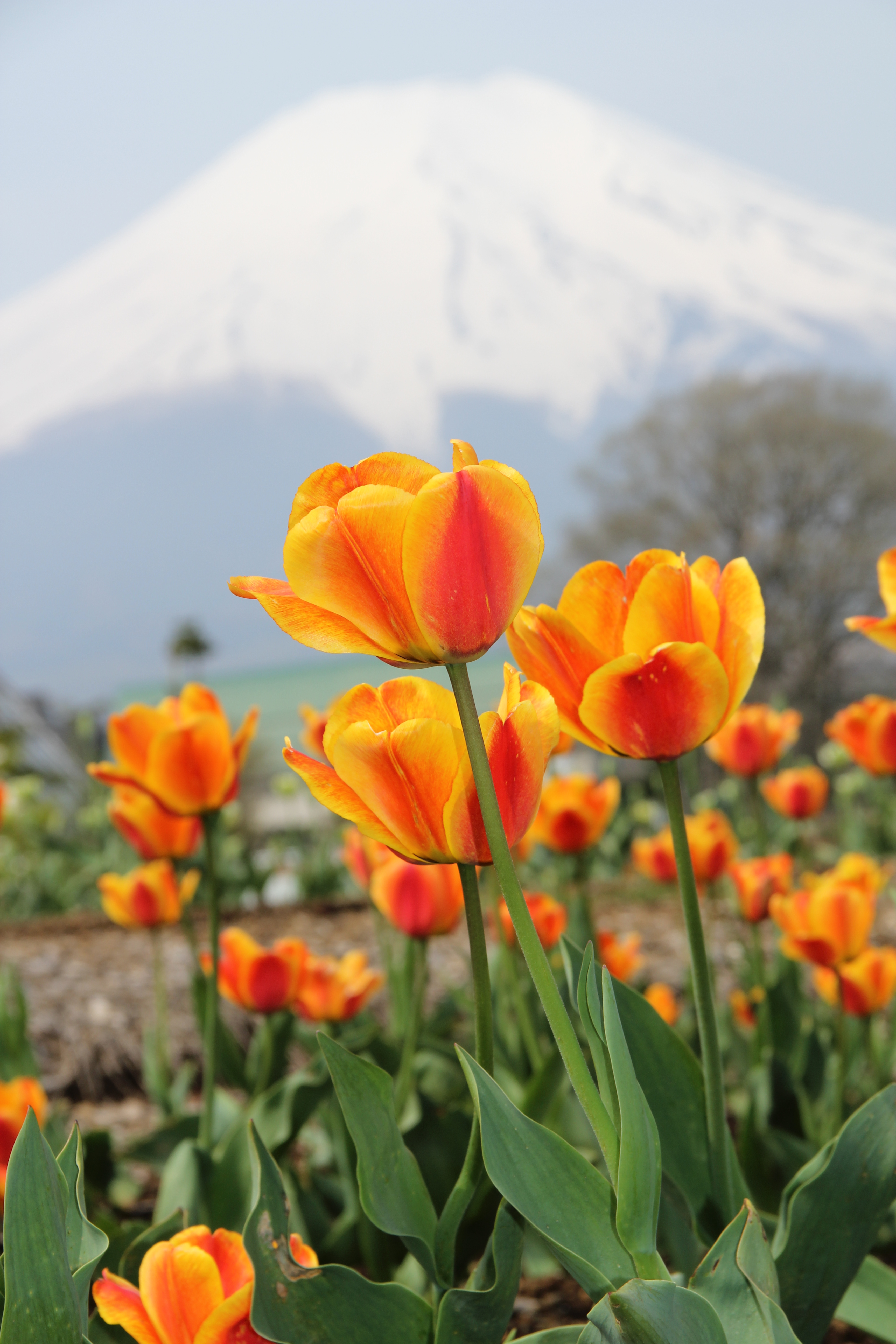 Mount Fuji and Tulips